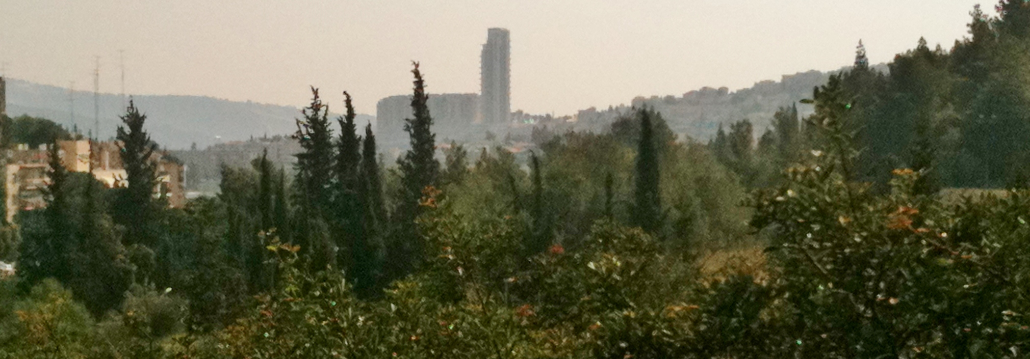 Kholyland, Jerusalem